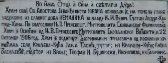 Srpska Kuca Church Inscription